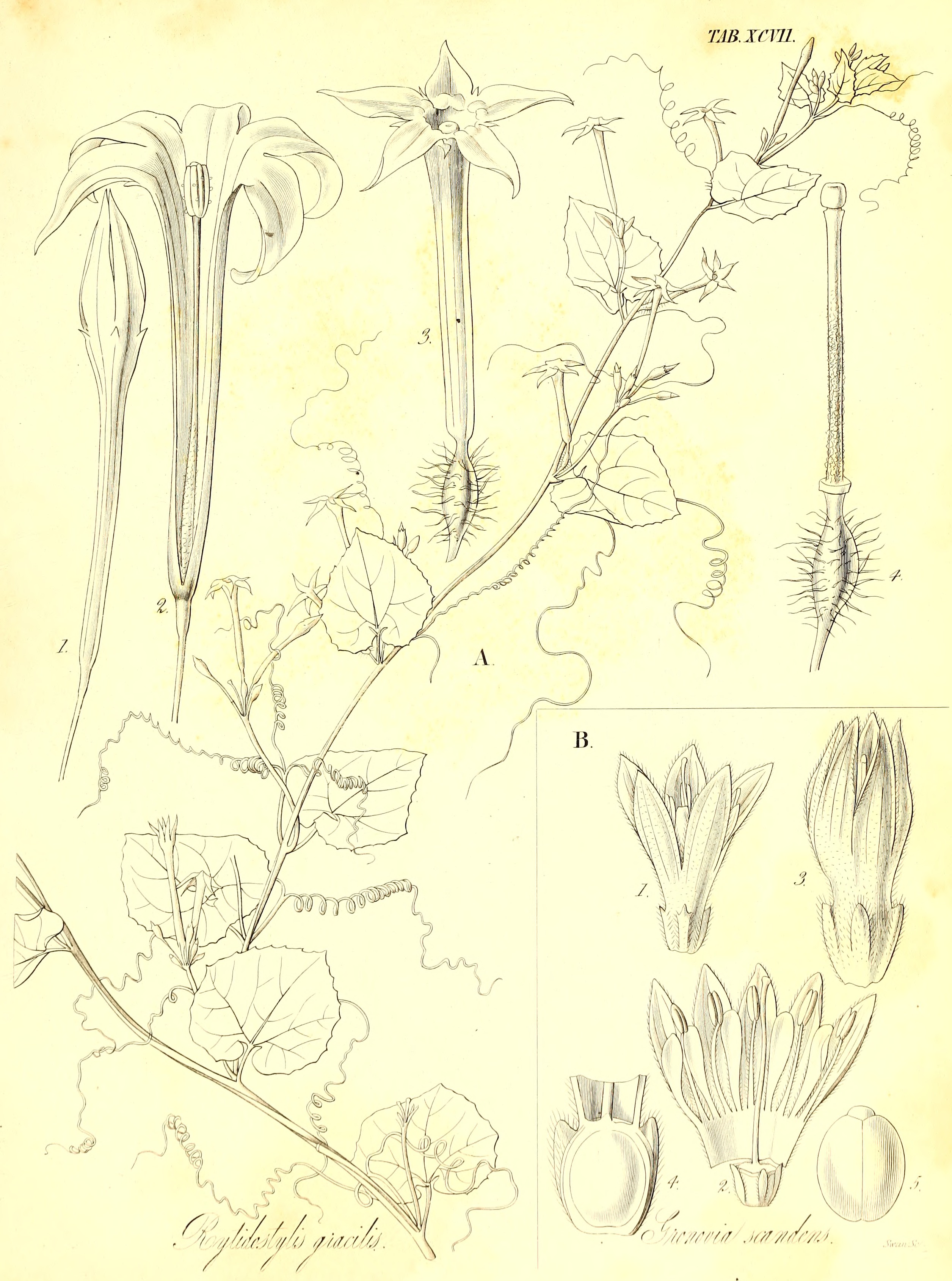 Title: The botany of Captain Beechey's voyage; comprising an acount of the plants collected by Messrs. Lay and Collie, and other officers of the expedition, during the voyage to the Pacific and Behring's Strait, performed in His Majesty's ship Blossom, under the command of Captain F. W. Beechey ... in the years 1825, 26, 27, and 28 Year: 1841 (1840s) Authors: Hooker, William Jackson, Sir, 1785-1865; Arnott, George Arnott Walker, 1799-1868, joint author; Beechey, Frederick William, 1796-1856 Subjects: Blossom (Ship); Botany; Botany; Botany Publisher: London, H. G. Bohn Text Appearing Before Image: ' Text Appearing After Image: '